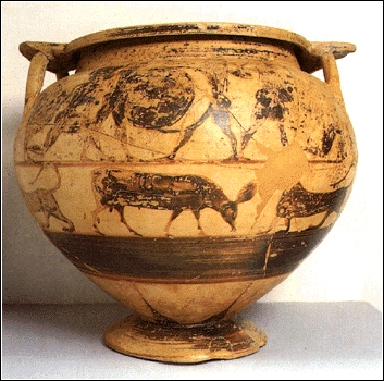 Cratere mesocorinzio a colonnette (590-575 a.C.)